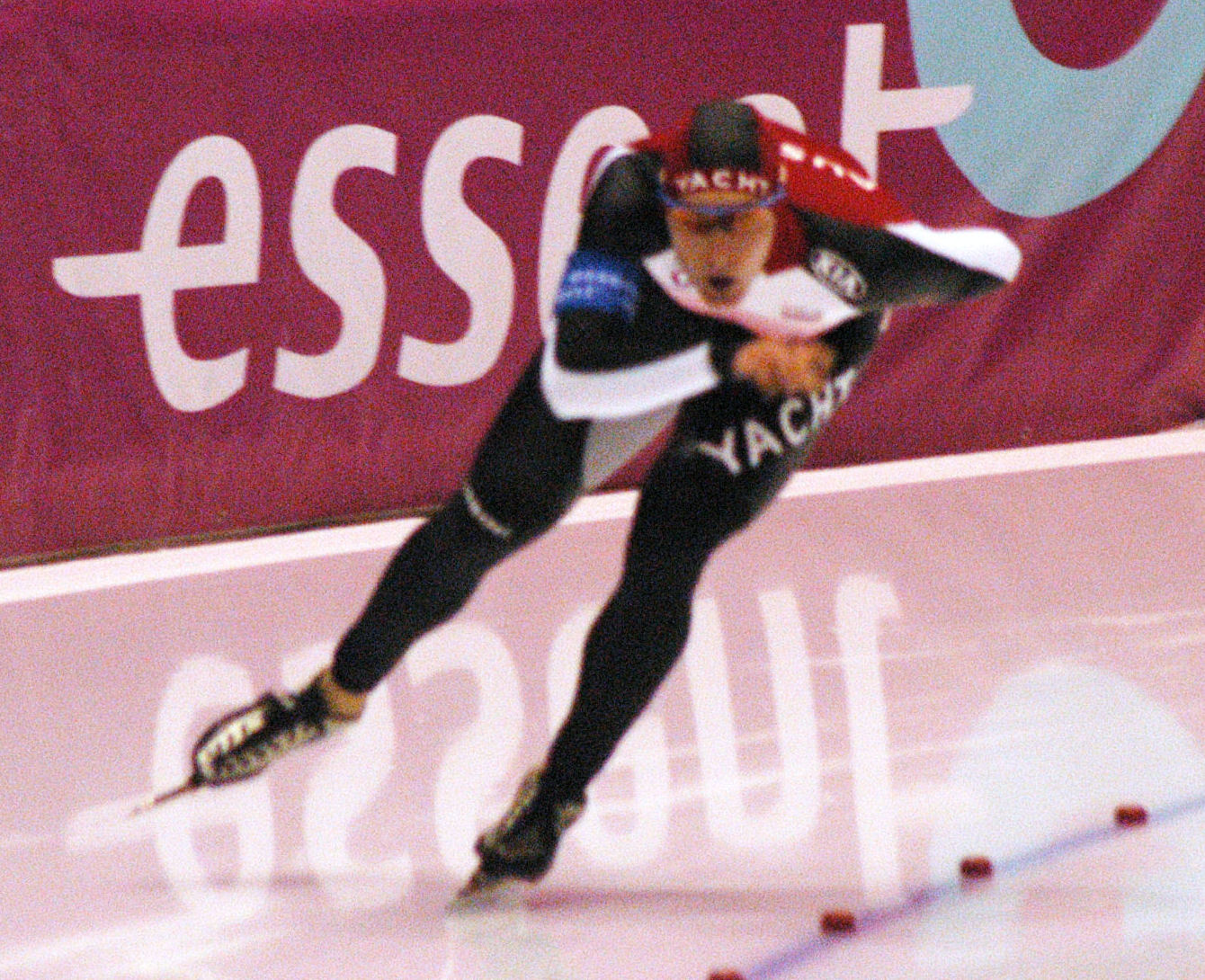 Christian Pichler (AUT) at a World Cup speedskating in Heerenveen (NED)